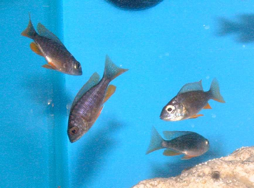 Photograph of juvenile specimens of Copadicohromis borleyi in a dealer aquarium, taken 17 March 2007.